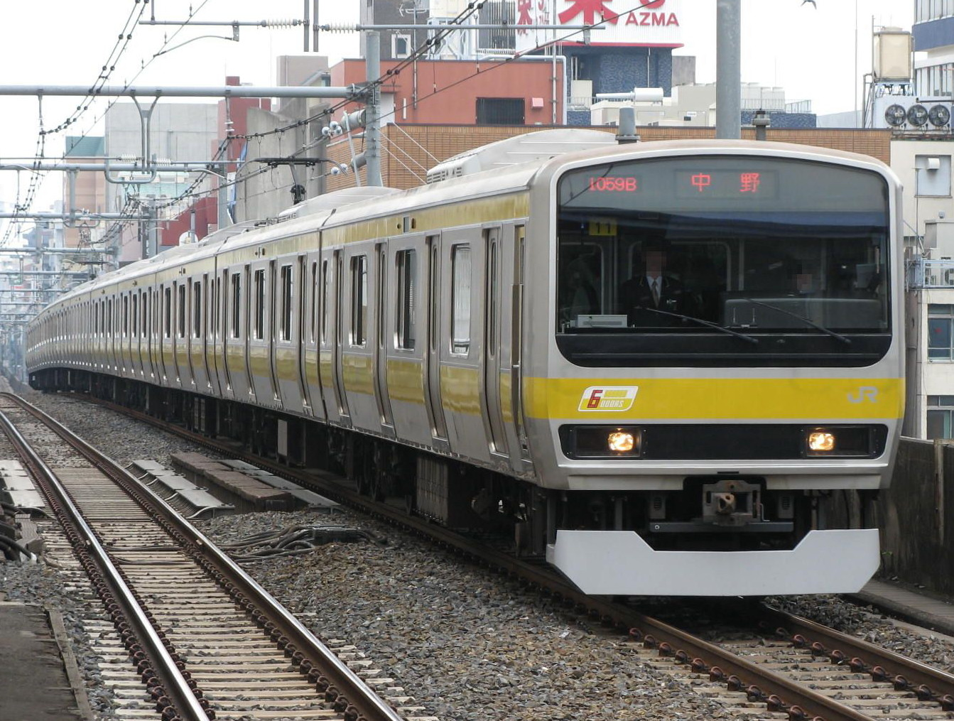 JR East E231 series train Mitsu 11, serving Chuo-Sobu Line (Taken at Akihabara Station)